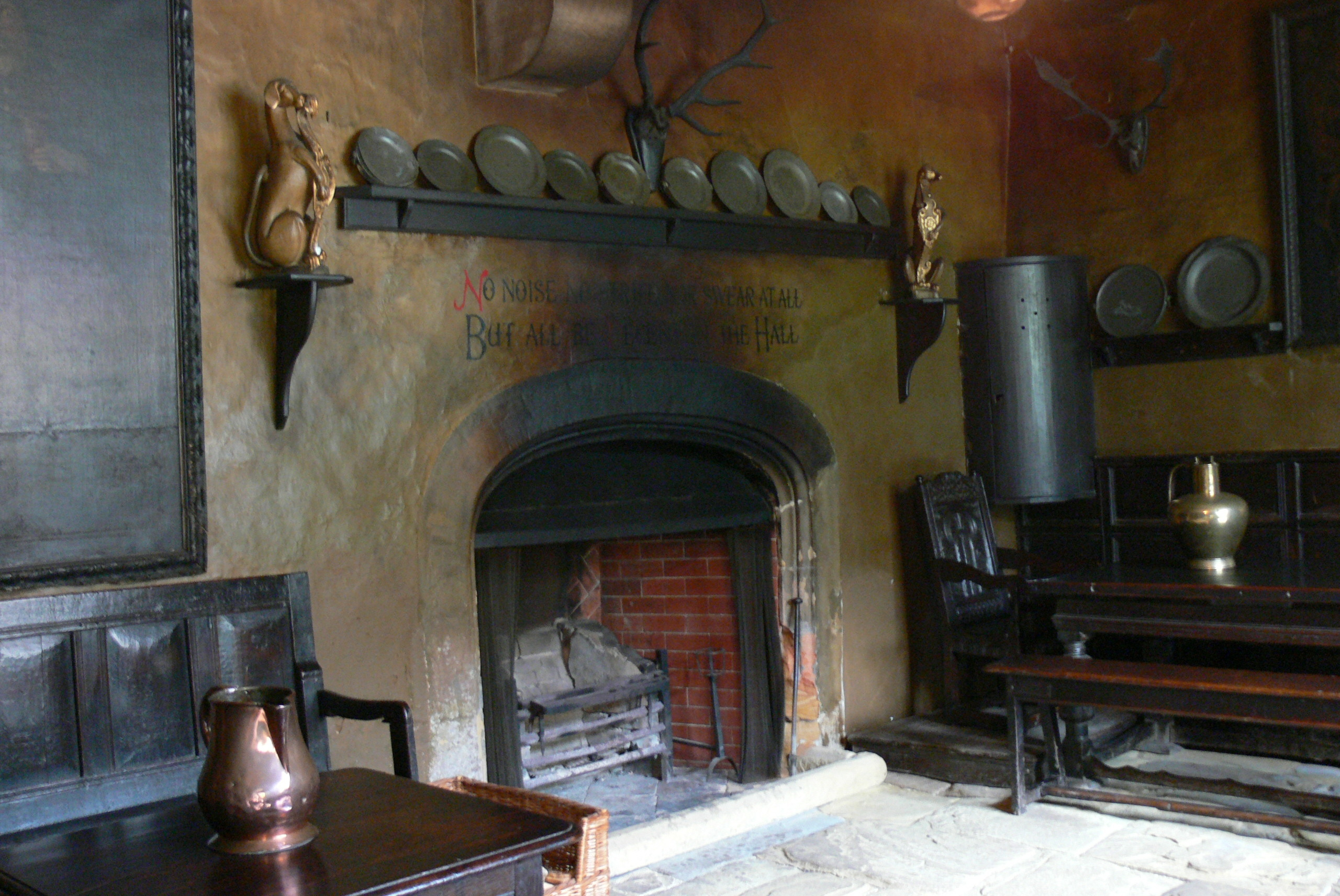 Chirk castle ( Wales ). Historical castle kitchen.